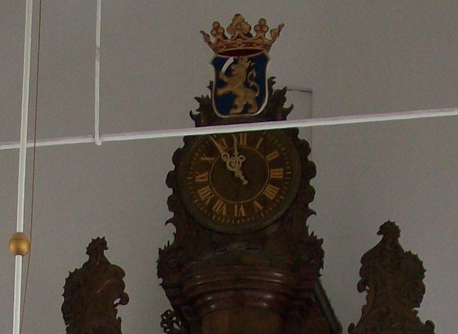 Clock at the Van Deventer-organ in Nijkerk (the Netherlands)